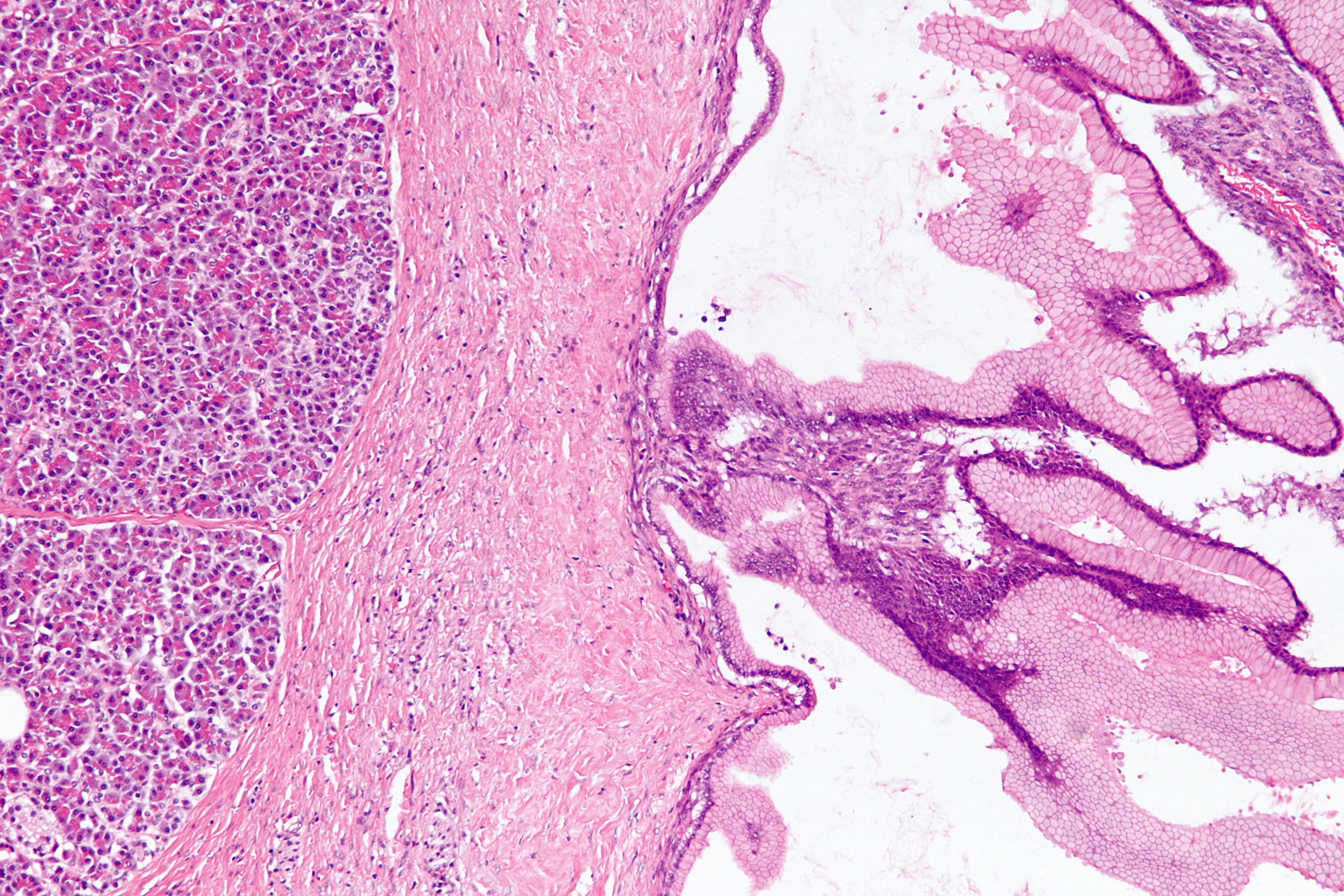 Intermediate magnification micrograph of a benign mucinous tumour of the pancreas, also benign pancreatic mucinous cystic neoplasm. Characteristics: Cysts with a benign mucinous epithelium. Ovarian-like stroma. Related images Very low mag. Low mag. High mag. See also Solid pseudopapillary neoplasm. Serous microcystic adenoma.